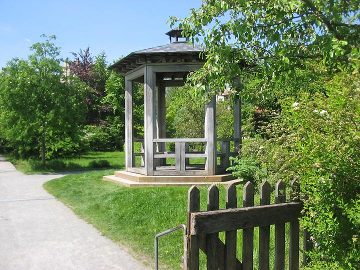 Comenius-Garten nearby the Böhmisches Dorf (Böhmisch-Rixdorf) in Berlin-Neukölln, Germany.